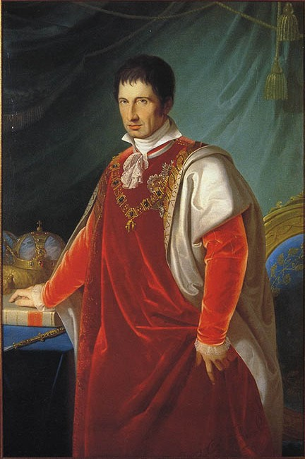 Palazzo Ducale in Modena. To the left of the portrait of Queen Mary is a matching oil on canvas portrait of her husband, Francis IV, Duke of Modena, also by Adeodata Malatesta. 8 Francis wears the scarlet robes of a knight of the Austrian Order of the Golden Fleece. On the table to his right are two crowns, one of an archduke of Austria, the other of a duke of Modena and Reggio. His right hand rests on a bound copy of the Codice Estense, the code of law published in 1771 and restored by Francis IV in 1814.